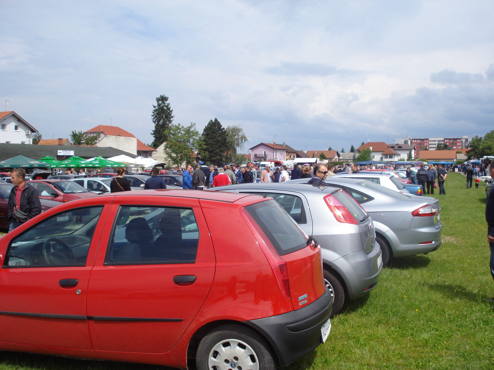 Used car market-place in Varaždin, Croatia